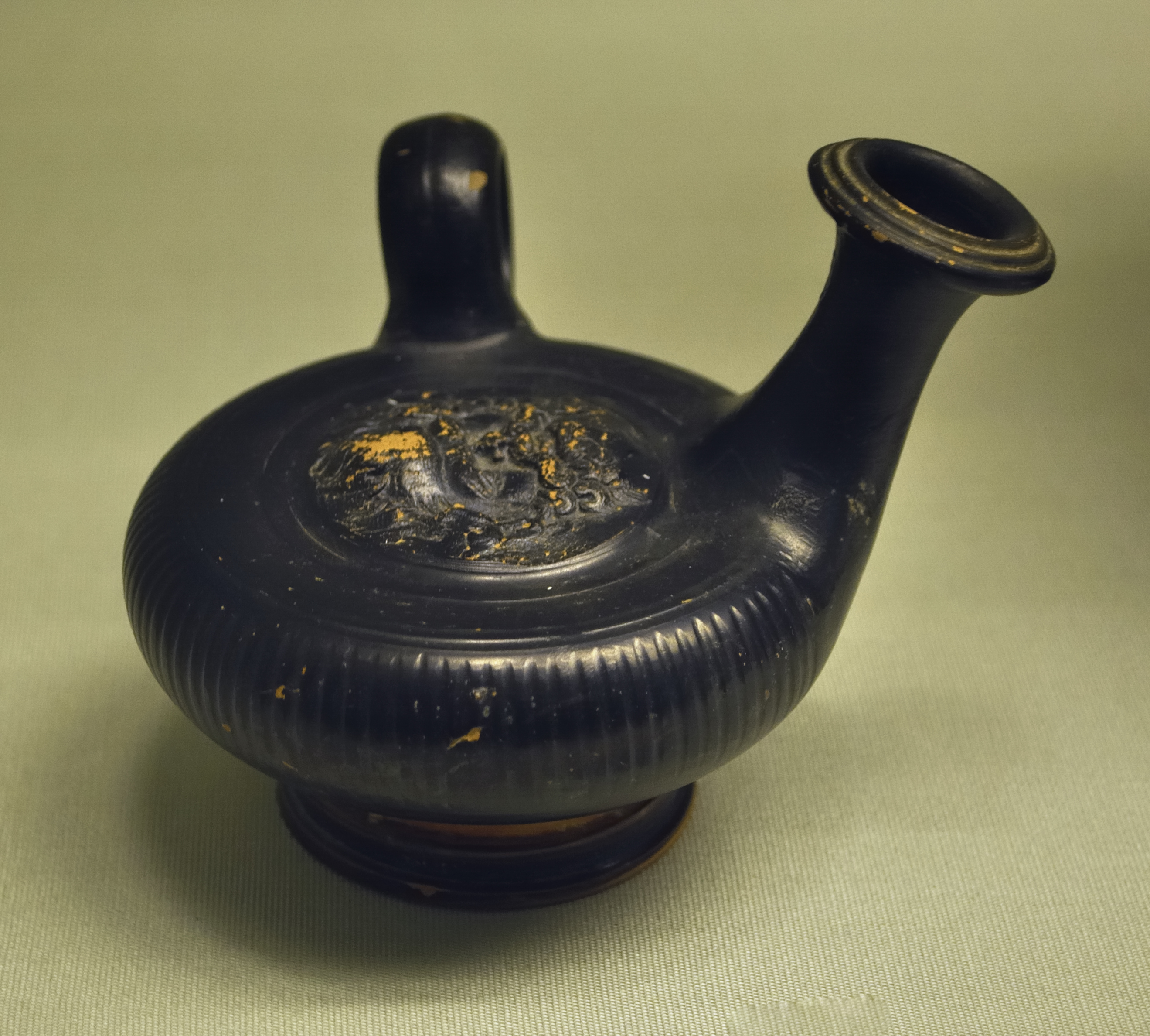 Picture taken in Hetjens-Museum Düsseldorf before Duisburg summer meetup 2010.